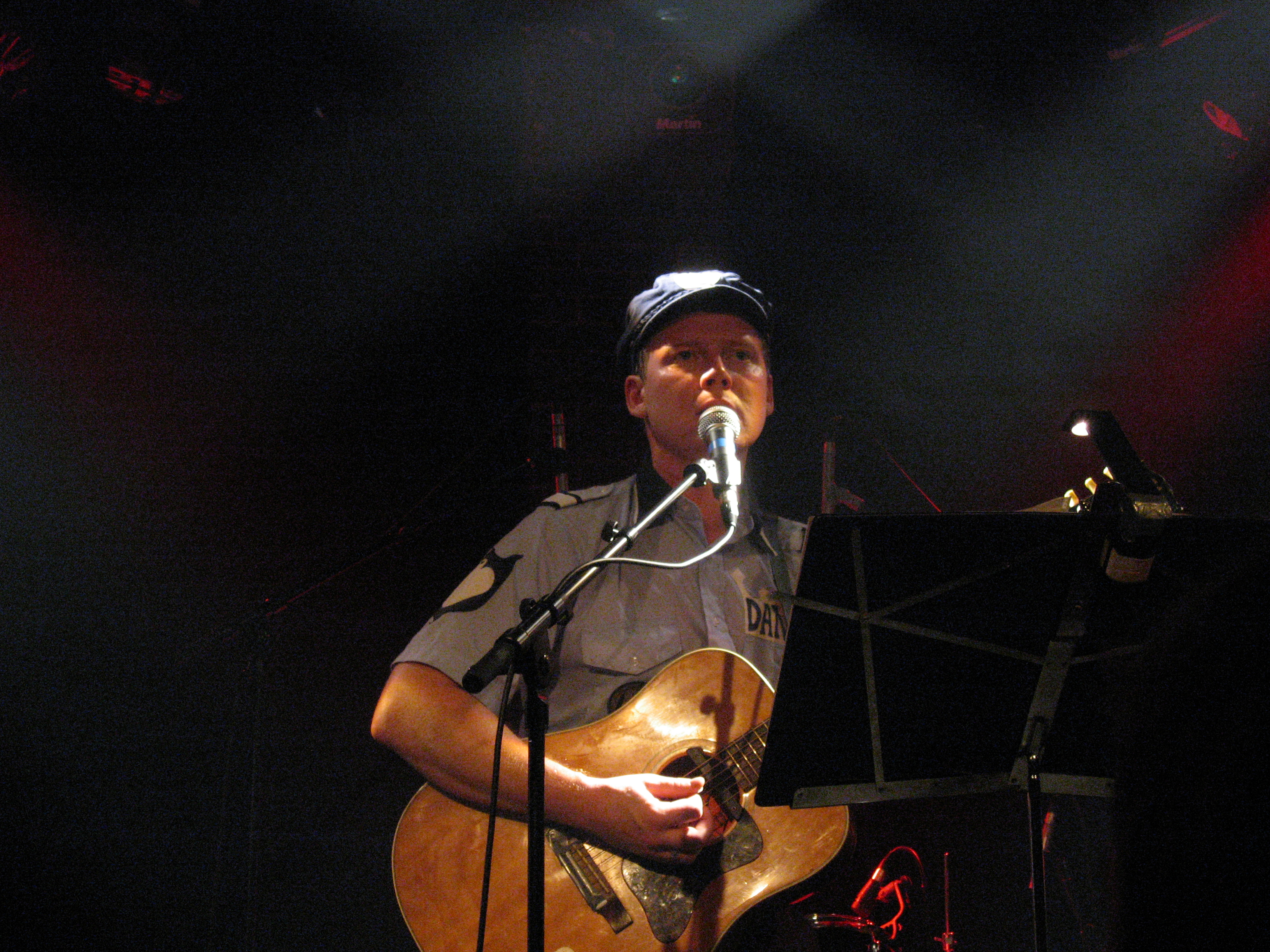 Daniel Smith from Danielson